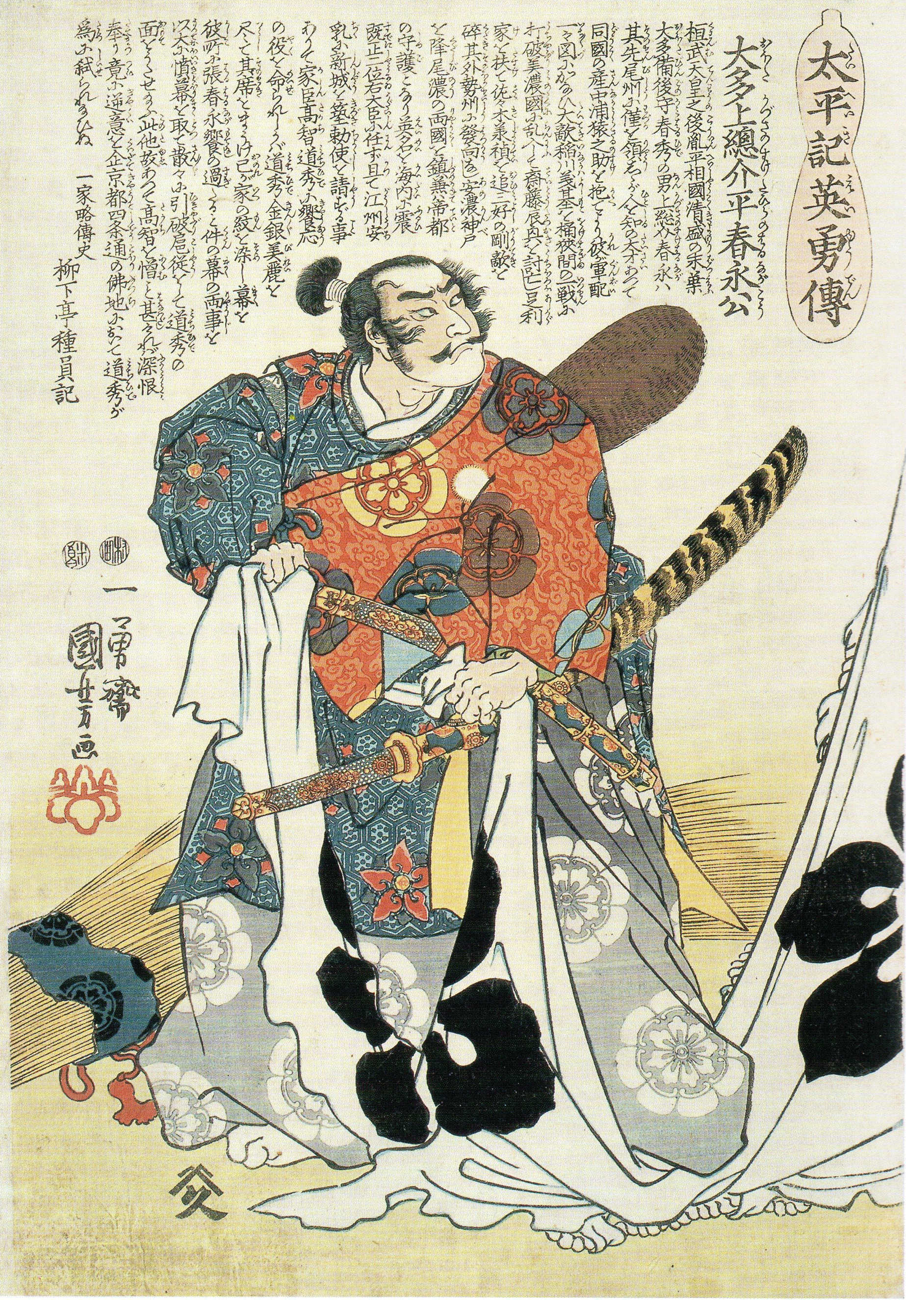 Ukiyo-e of Oda Nobunaga. From the "Kuniyoshi's Warriors" collection. Musha-e (武者絵), warrior print. Made by Utagawa Kuniyoshi.